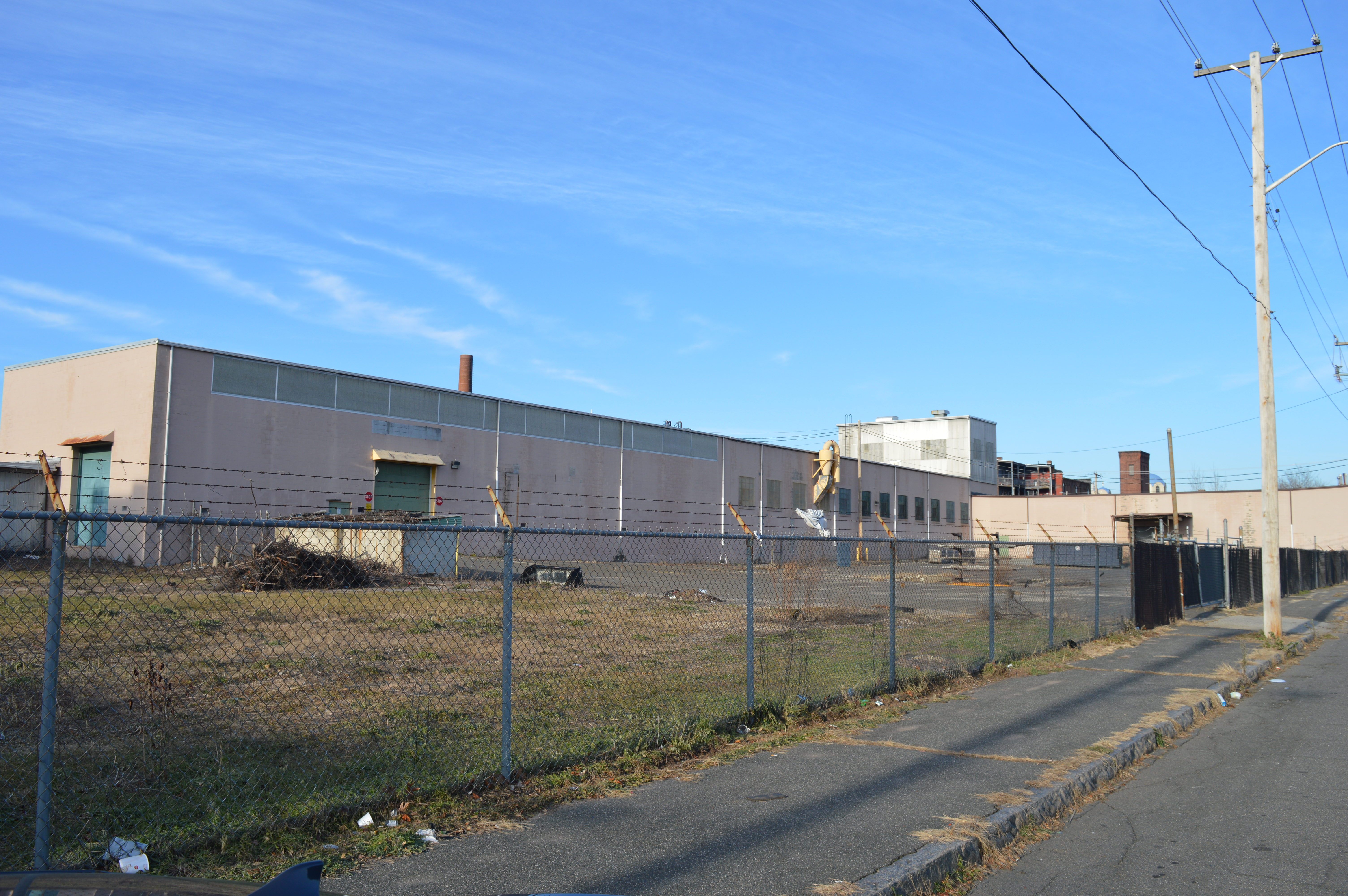 The freight yard and loading docks to the rear of the former Holyoke Machine Company's factory headquarters